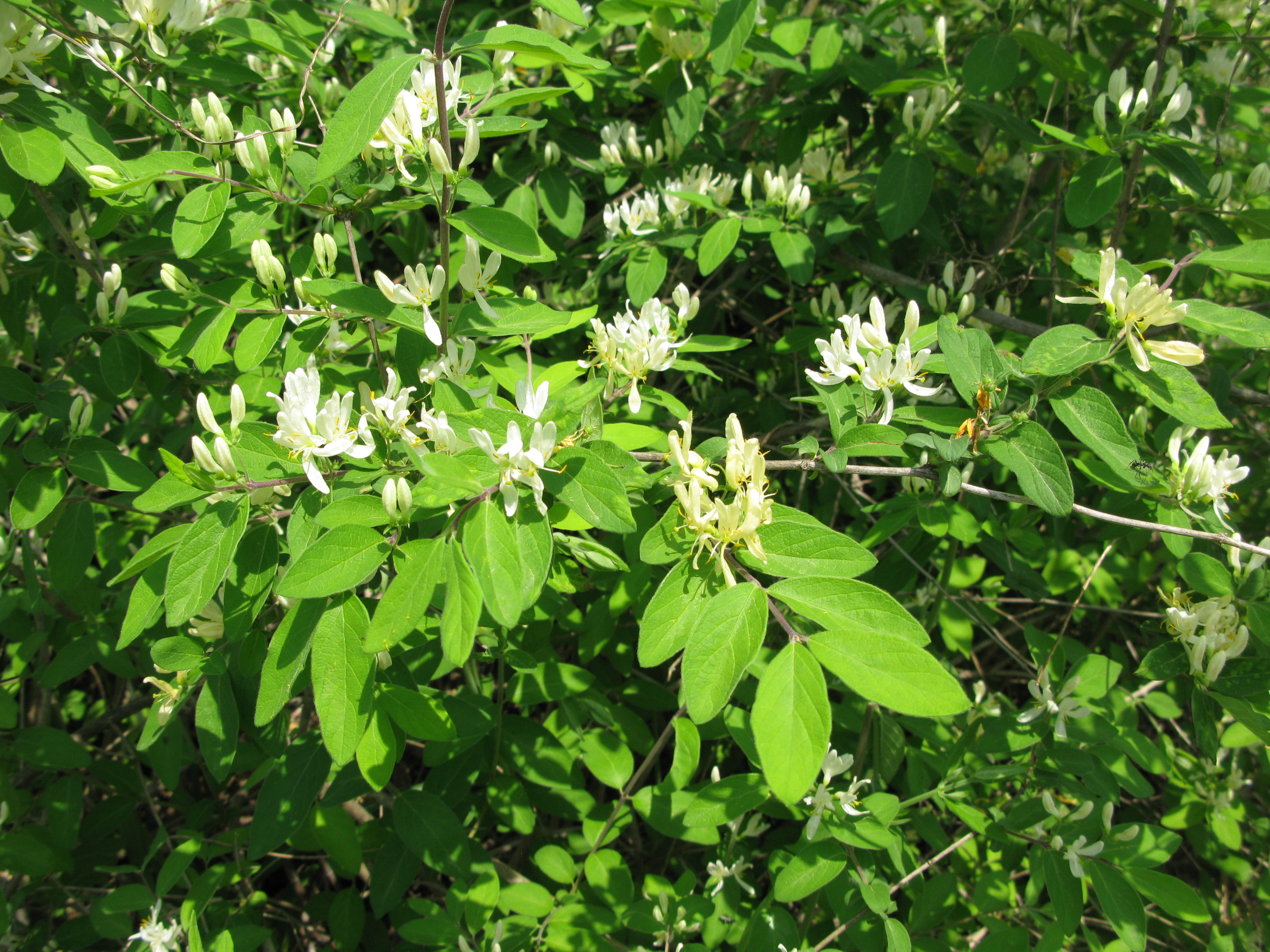 Lonicera_morrowii, Aizu area, Fukushima pref., Japan